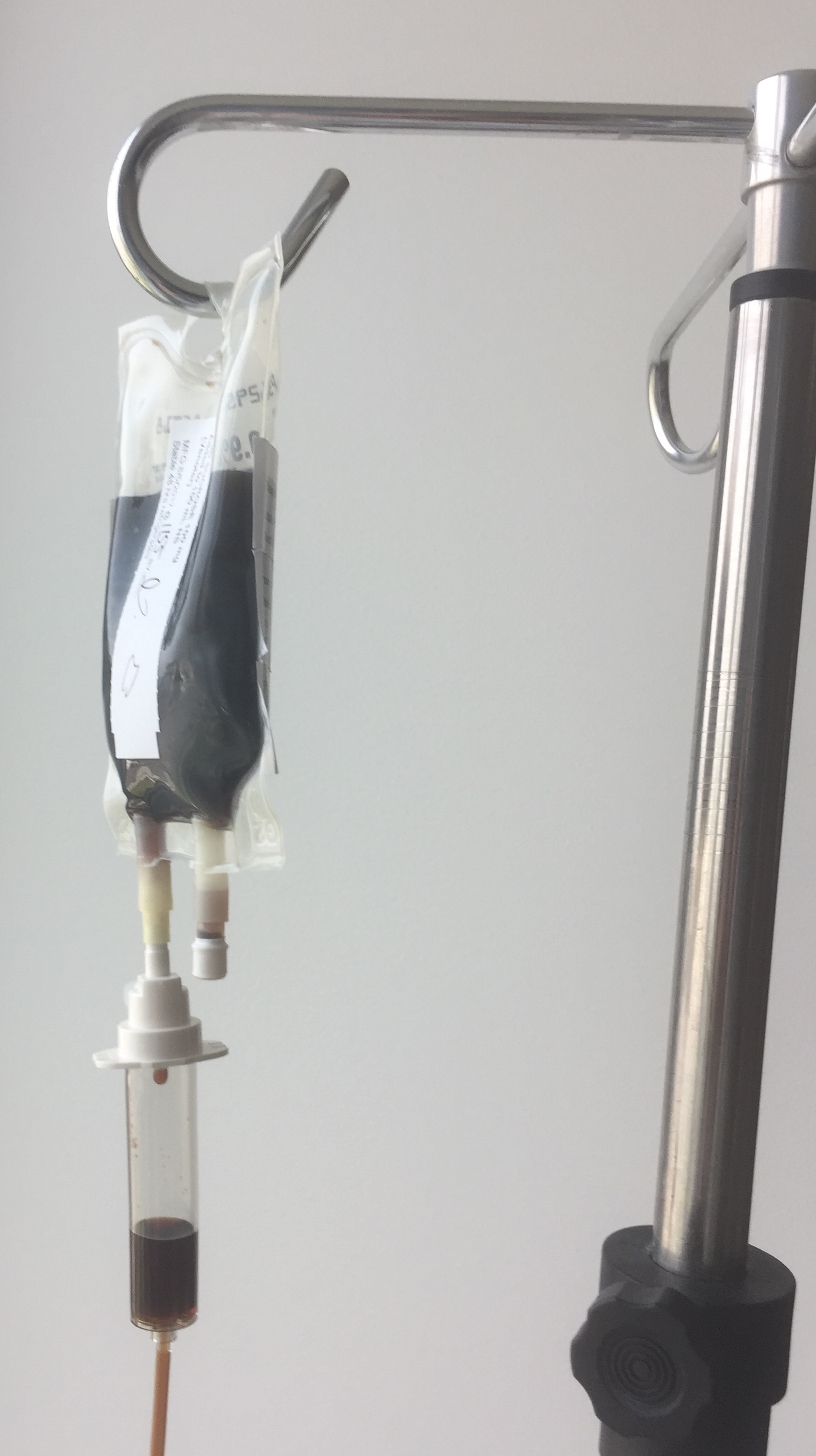 image of iron sucrose solution.